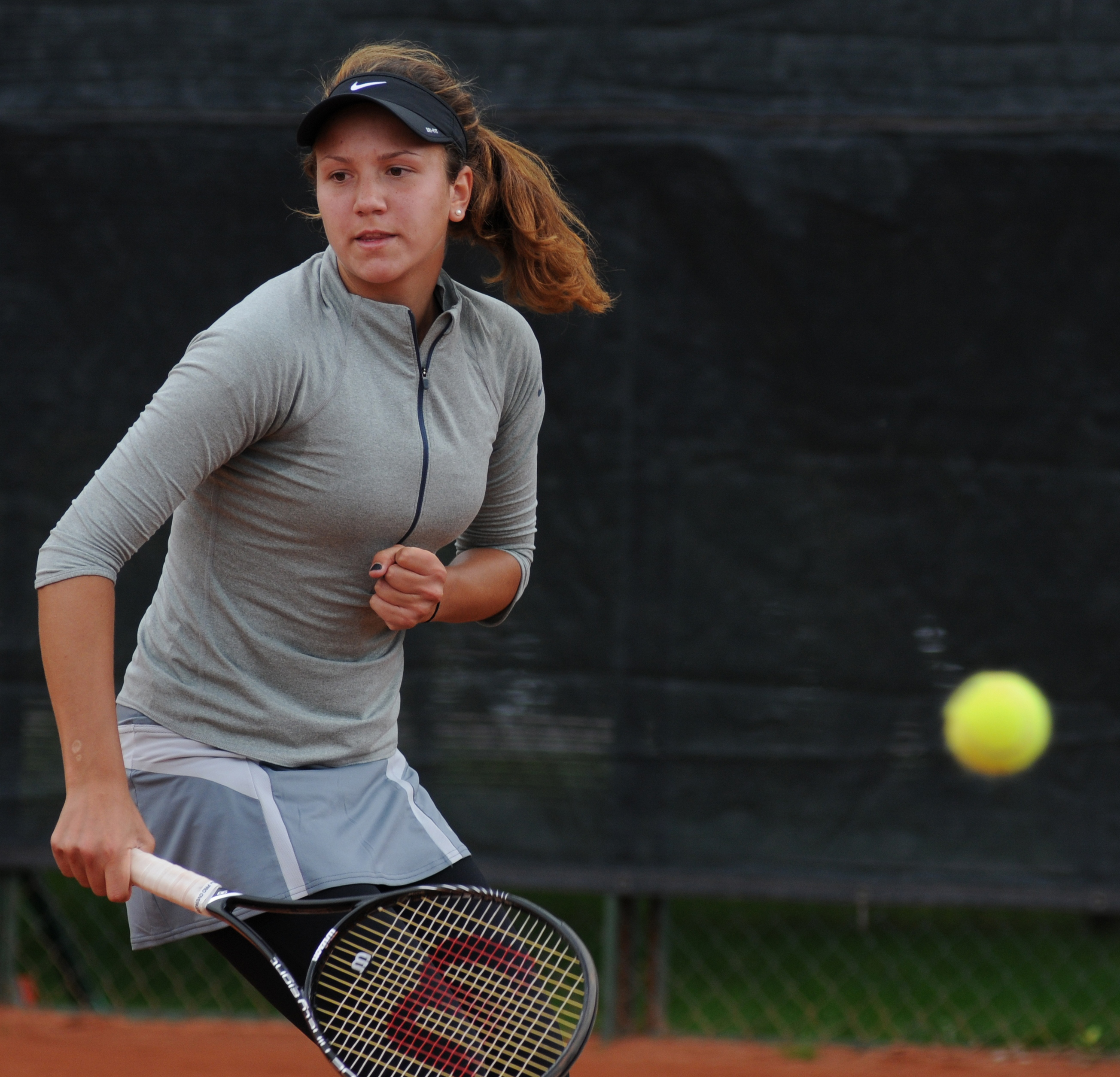 Anna Danilina at the 2014 Moscow Cup